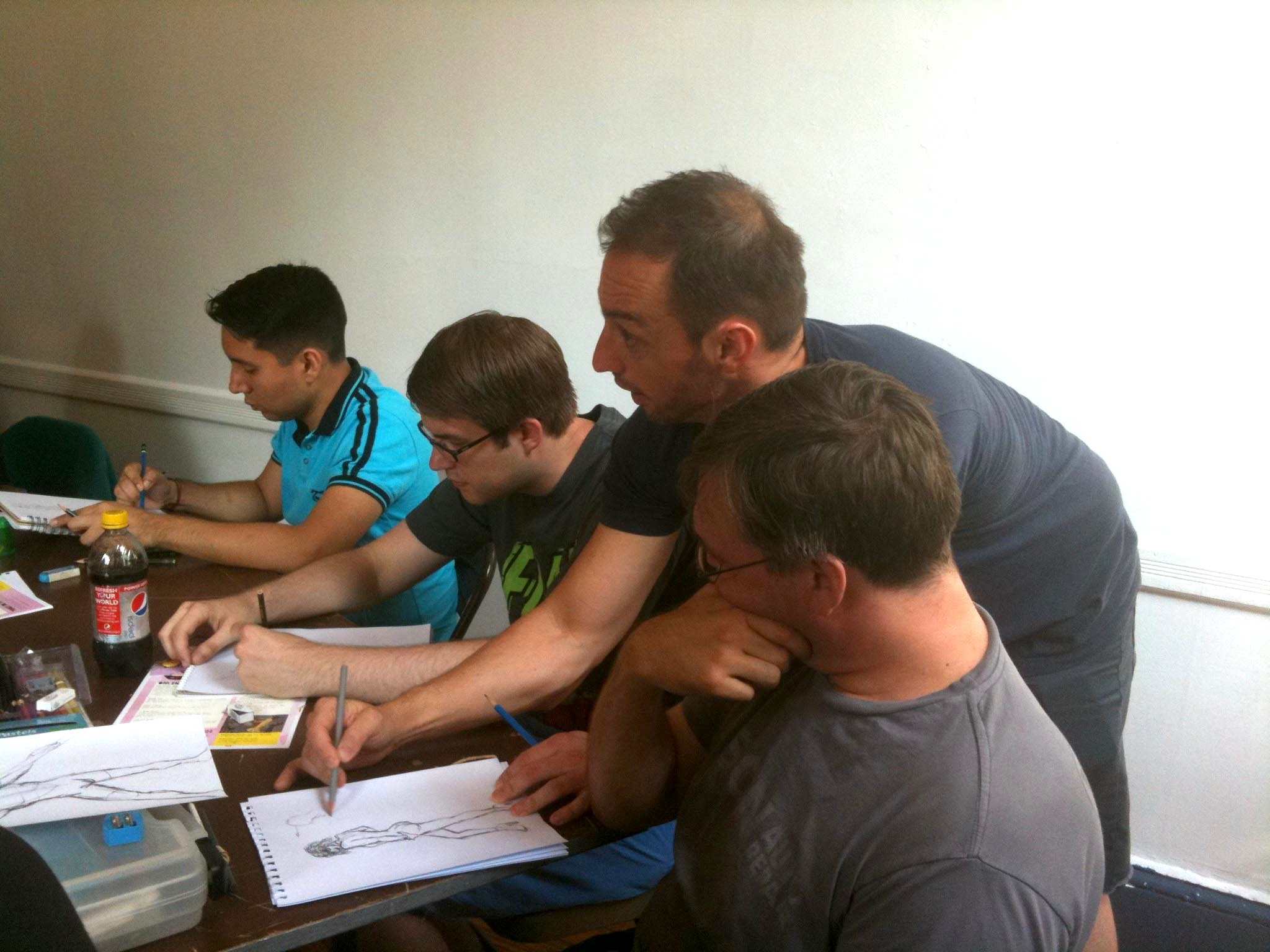 Comic book creator Phil Jimenez supervises artists attending his June 12, 2011 figure drawing class at the LGBT Center in Manhattan. Photographed by Luigi Novi. This photo is not in the public domain. It may, however, be used, modified and published for any purpose, free of charge, only if the photographer is properly credited, either by linking the photograph to this page, or with an easily visible credit to the photographer placed near the photo in each instance in which it is used. (See licensing information below.) Publication of this photo without this proper attribution constitutes copyright infringement. If you have any questions, you can contact me on my Wikipedia Talk Page.